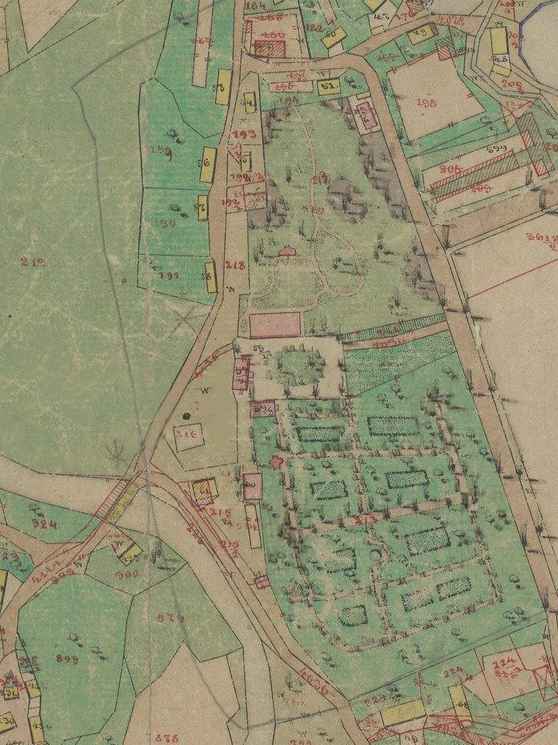 Manor house in Haczow on a map from 1851 (pink building in the middle)